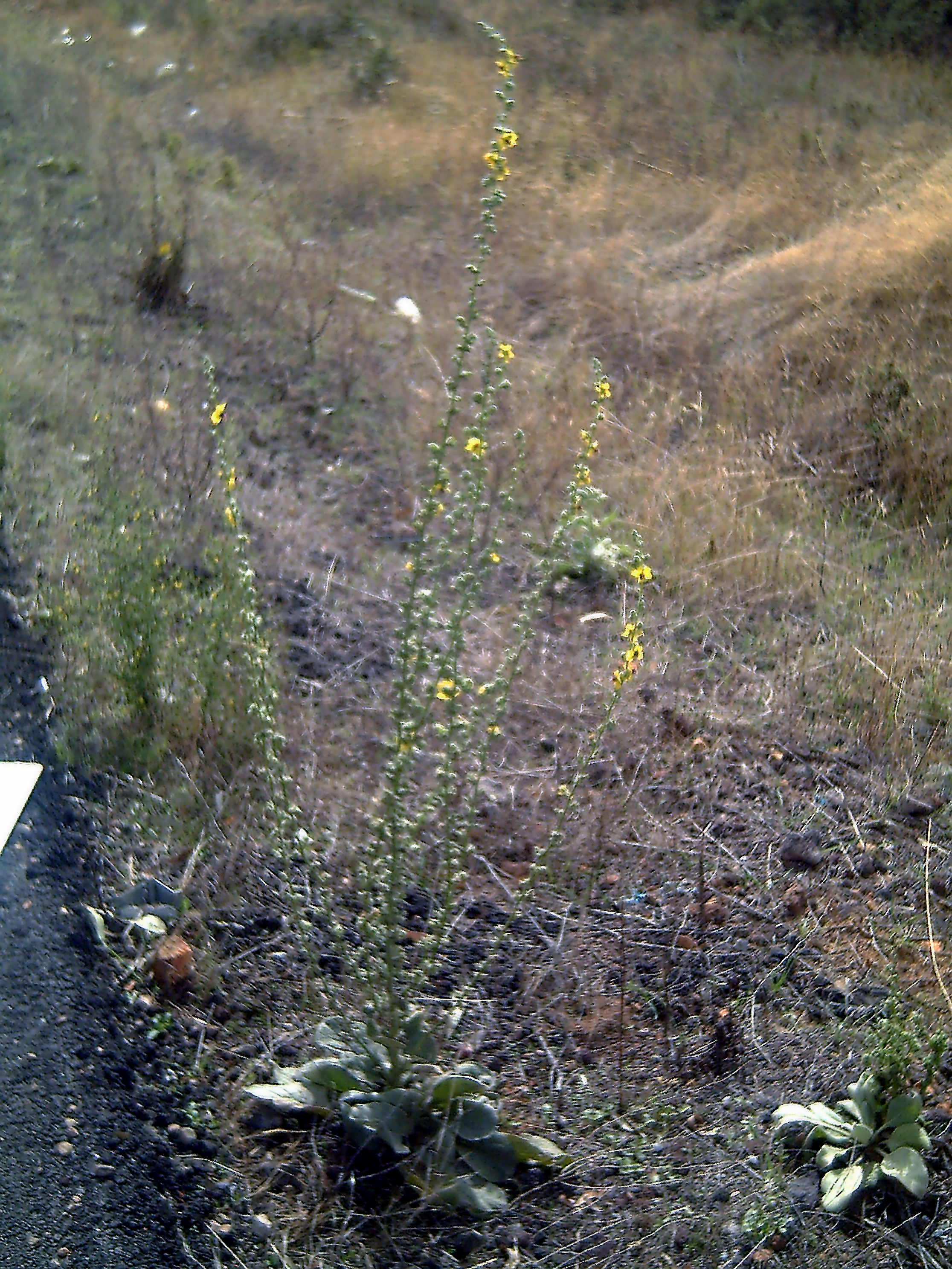 Verbascum rotundifolium habit Dehesa Boyal de Puertollano, Spain